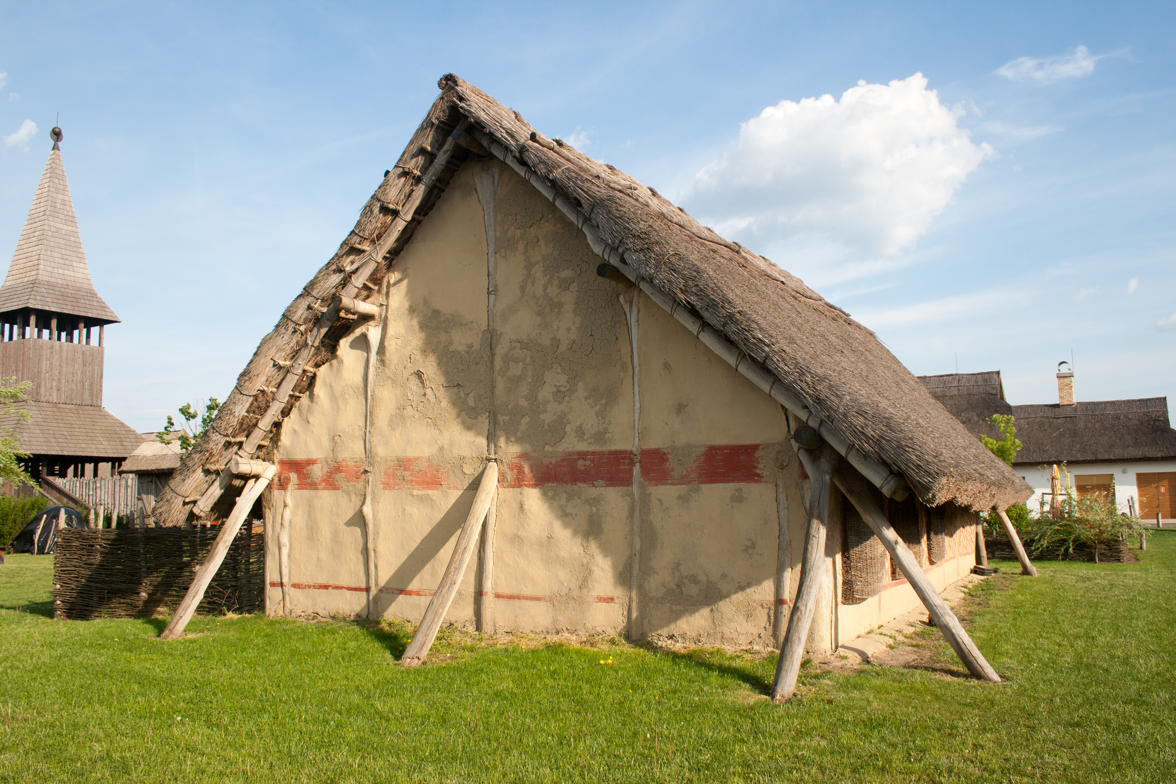 Neolithic house, reconstruction